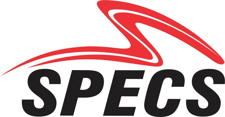 Logo Of Specs Apparell